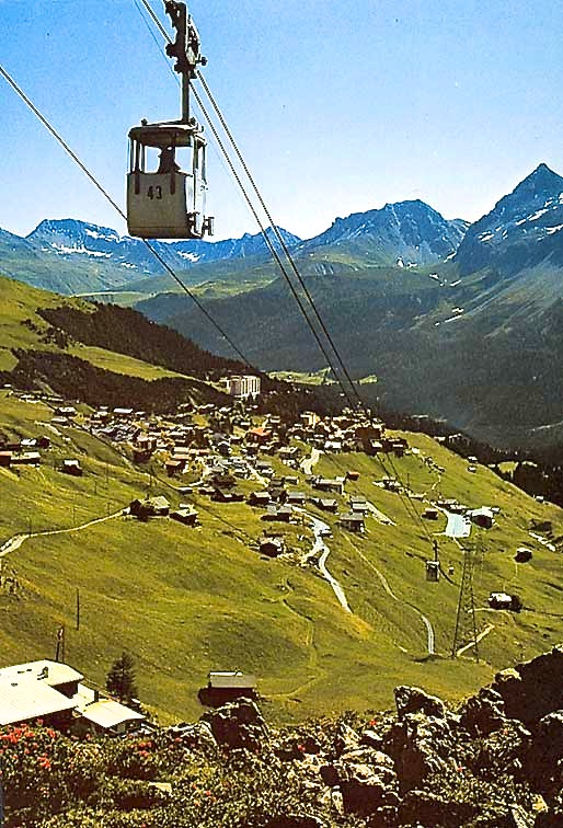 old ropeway to Hörnli Arosa